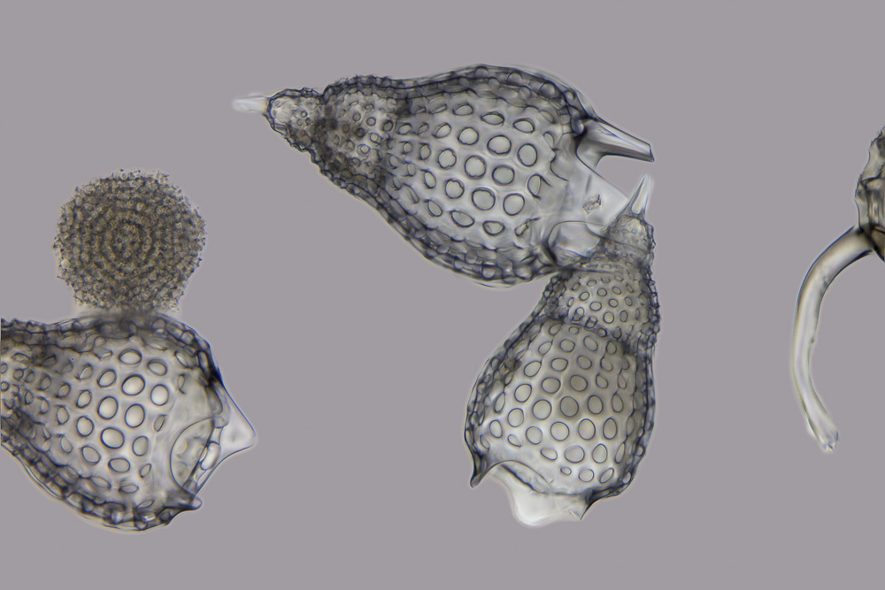 Radiolarian protozoan, order Nassellaria, subphylum Radiolaria.